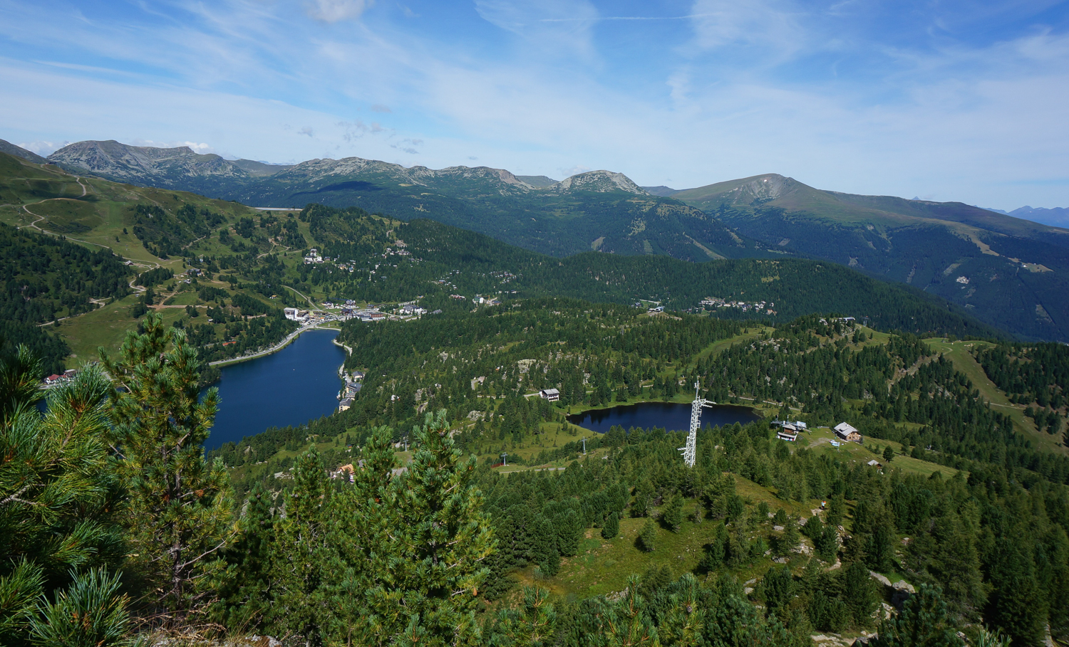 Turracher Höhe, Turracher See (1.763 m asl). and Schwarzsee (1.841 m asl) in the Nockberge Biosphere Reserve, Carinthia, Austria, EU